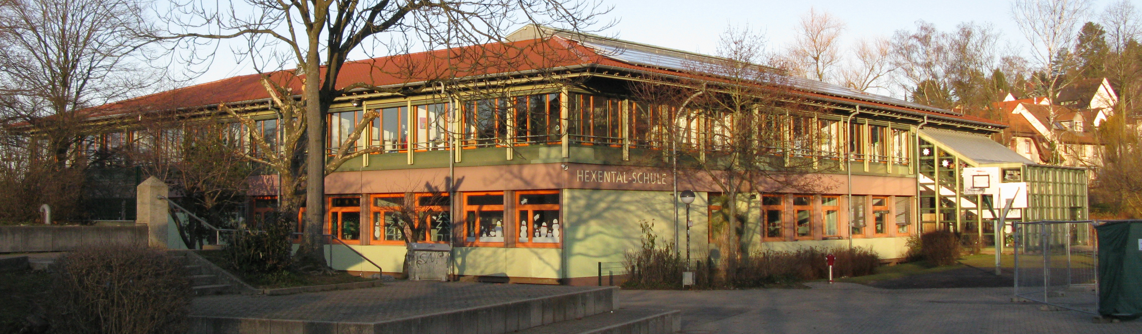 Merzhausen, Alois-Rapp-Haus with Hexentalschule (primary school)